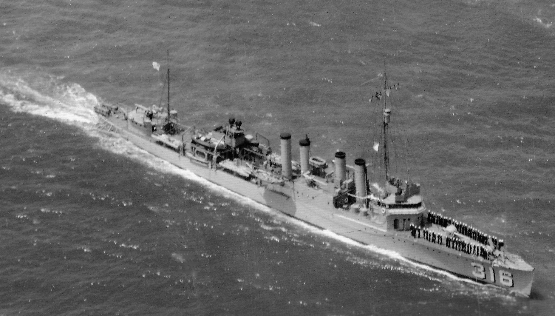 The U.S. Navy Clemson-class destroyer USS Sloat (DD-316) underway during a presidential naval review in Hampton Roads, Virginia (USA), on 4 June 1927.